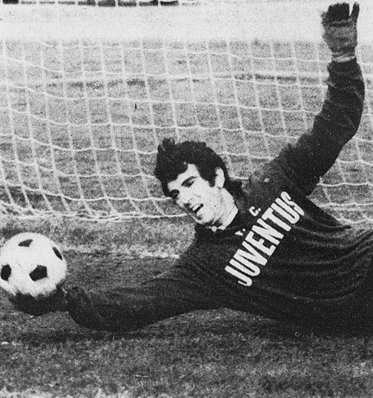 Turin (Italy), Combi Groung, circa January 1973. Italian goalkeeper Dino Zoff in training with Juventus F.C.